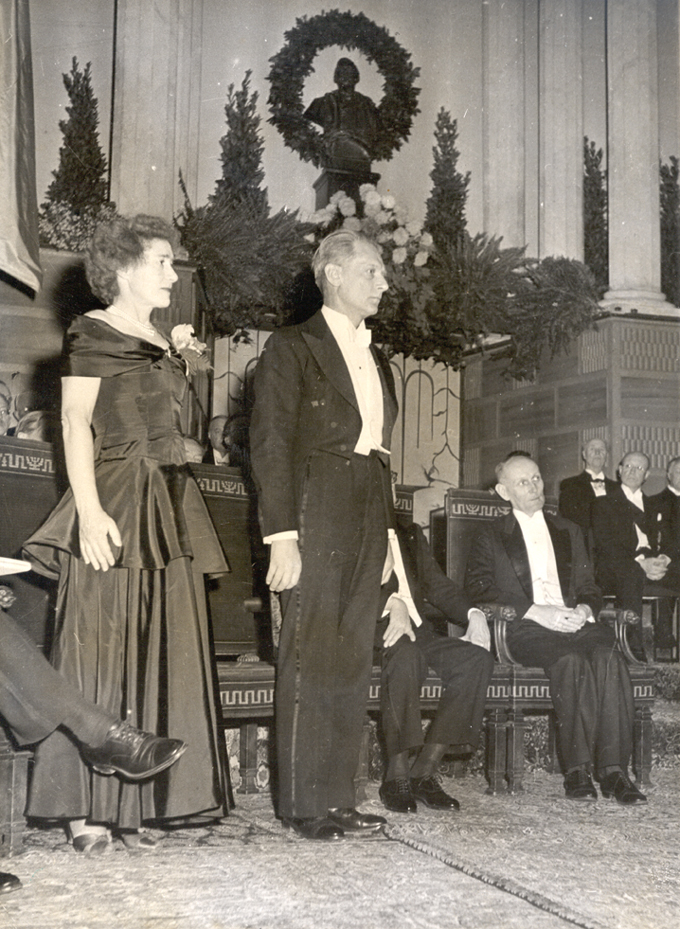 Gerty and Carl Cori at the Nobel Prize award presentation in Stockholm, Sweden on December 10, 1947